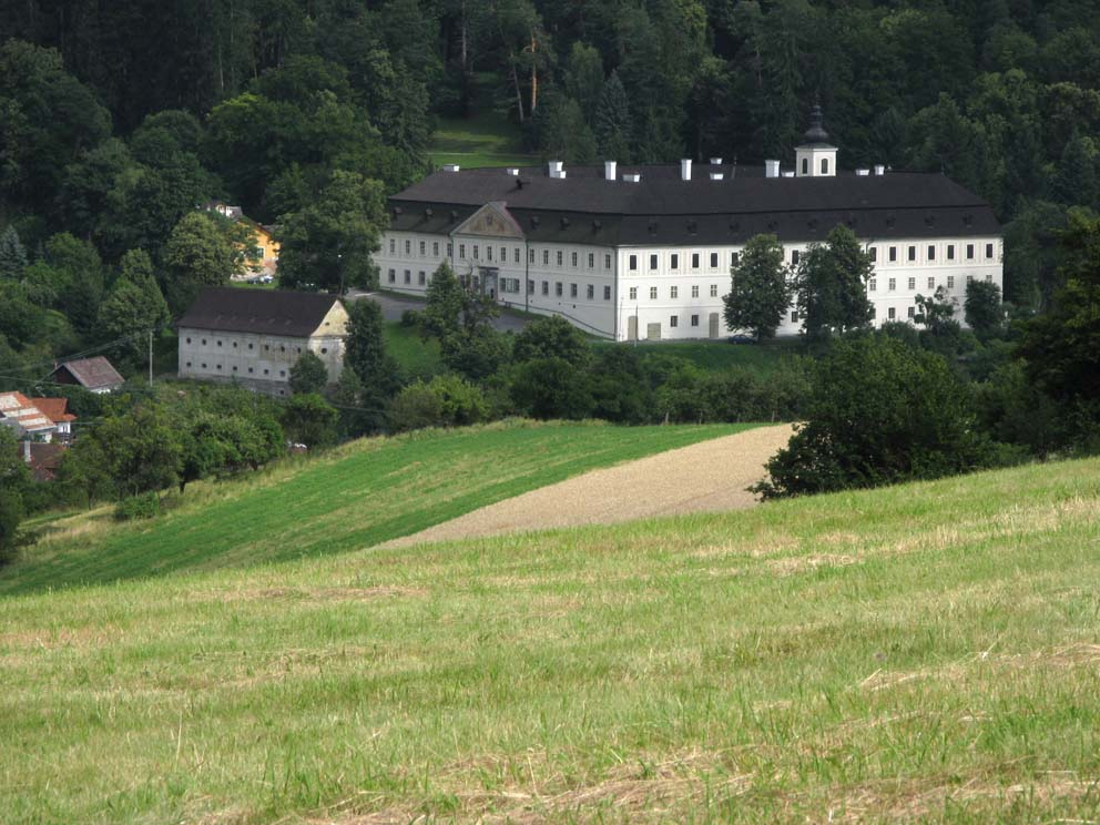 Svaty_anton1.JPG